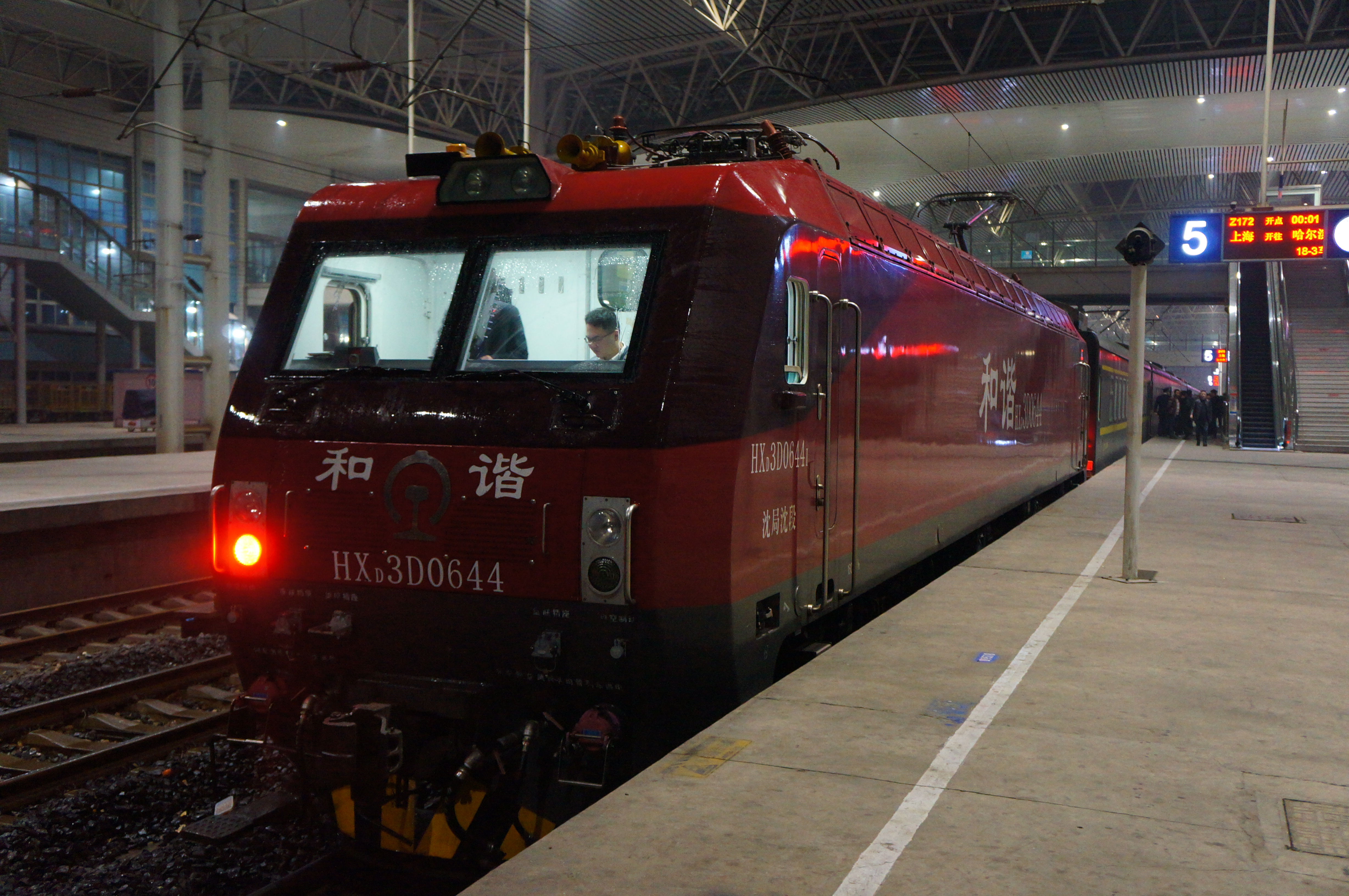 201812 HXD3D-0644 hauls Z172 from Shanghai to Harbin West at Bengbu Station